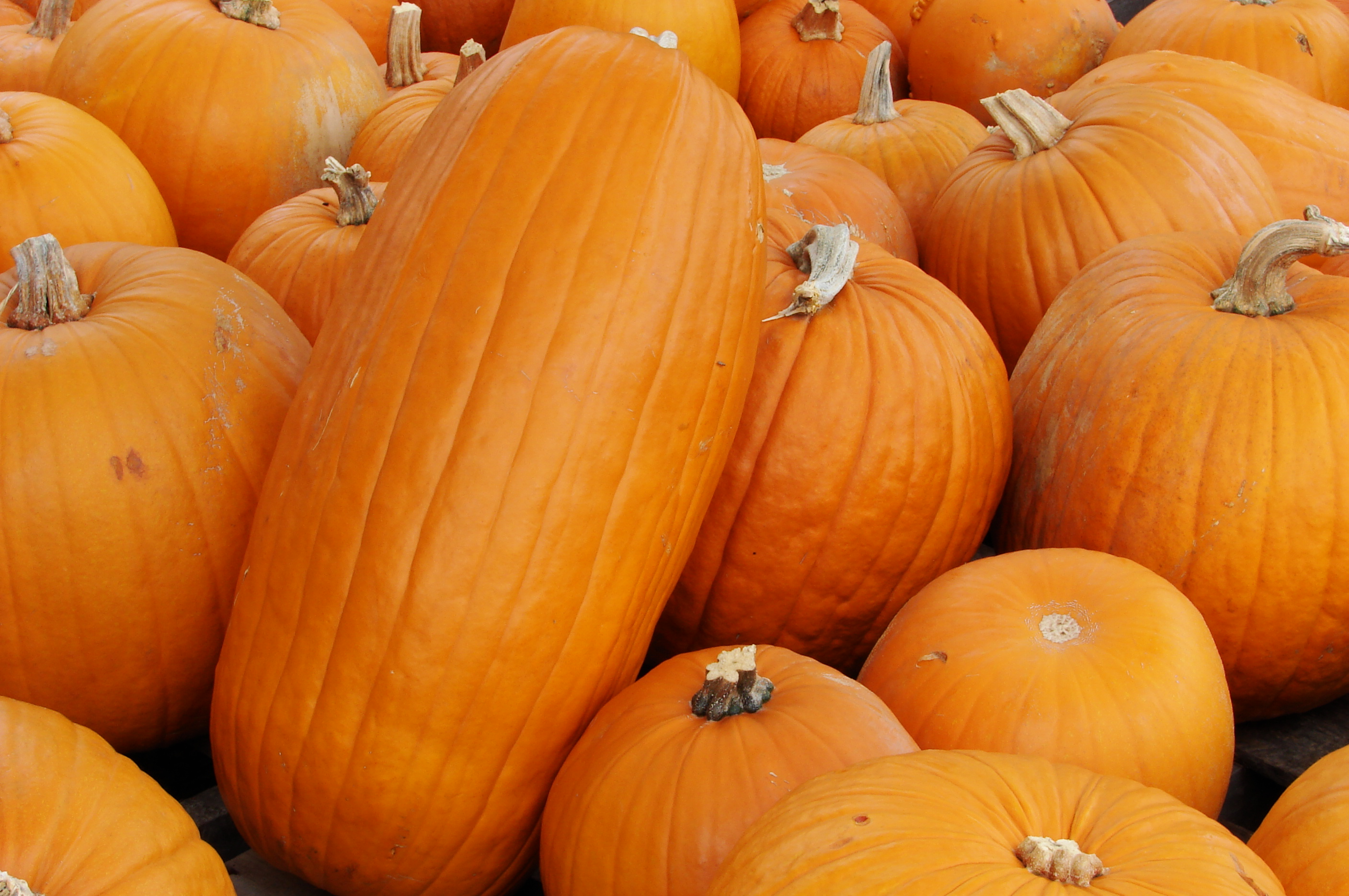 Pumpkins (Cucurbita).